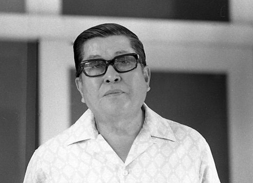 former Thai foreign minister Thanat Khoman, c. 1975, by Norman Peagam